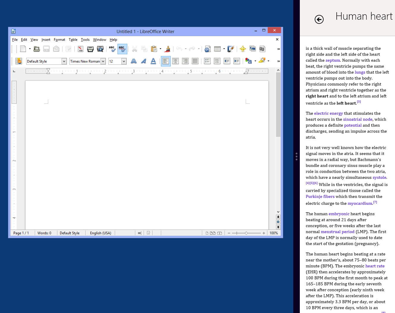 A screenshot of the Wikipedia App for Windows 8 (showing "Human heart" snapped to the side of a desktop running LibreOffice